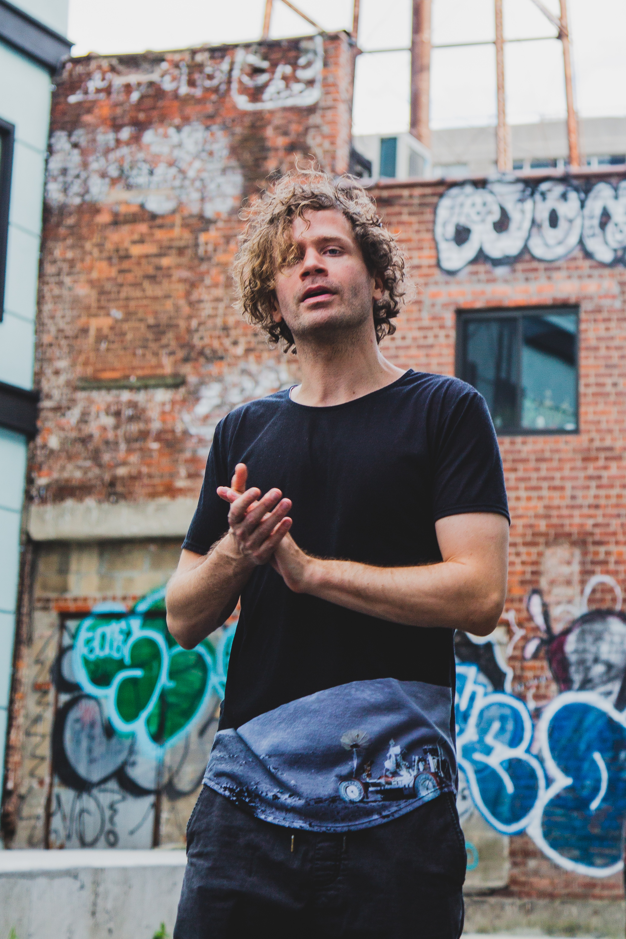 Musician Peter Dougherty pictured in 2019